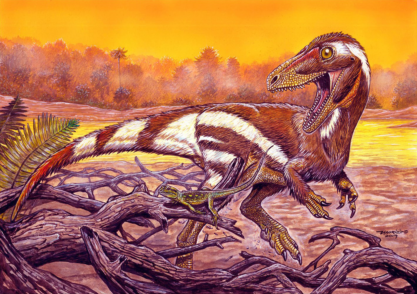 Life reconstruction of Aratasaurus museunacionali. et sp. nov.. Art work of Maurilio Oliveira.